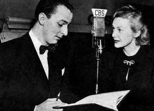 Photo of Fletcher Markle and Madeleine Carroll rehearsing "Farewell to Arms" for the CBS radio program Studio One in 1948.